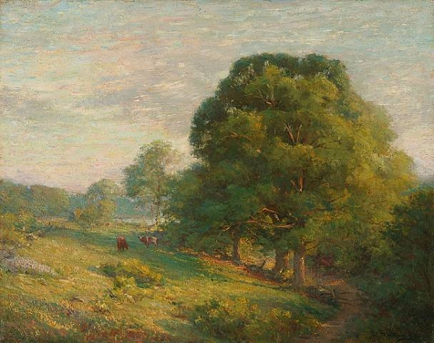 Painting - "A June Day" - oil on canvas